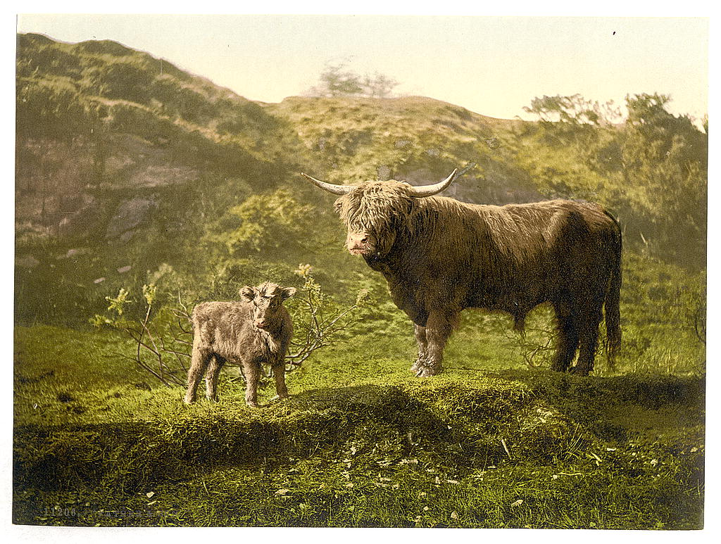 [Father and son (highland cattle)] [between ca. 1890 and ca. 1900]. 1 photomechanical print : photochrom, color. Notes: Title from the Detroit Publishing Co., Catalogue J--foreign section, Detroit, Mich. : Detroit Publishing Company, 1905. Print no. "11206". Forms part of: Views of the British Isles, in the Photochrom print collection. Subjects: Cattle. Scotland. Format: Photochrom prints--Color--1890-1900. Repository: Library of Congress, Prints and Photographs Division, Washington, D.C. 20540 USA, Part Of: Views of the British Isles (DLC) 2002696059 More information about the Photochrom Print Collection is available at Higher resolution image is available (Persistent URL): Call Number: LOT 13415, no. 1112 [item]